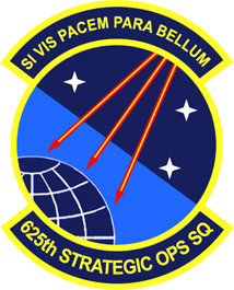 Emblem of the 625th Strategic Operations Squadron.